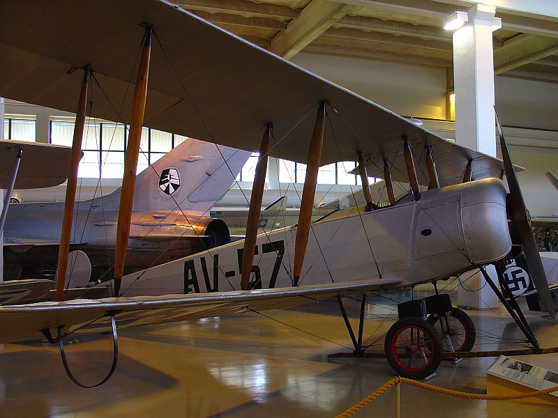 Avro 504K in Aviation Museum of Central Finland.